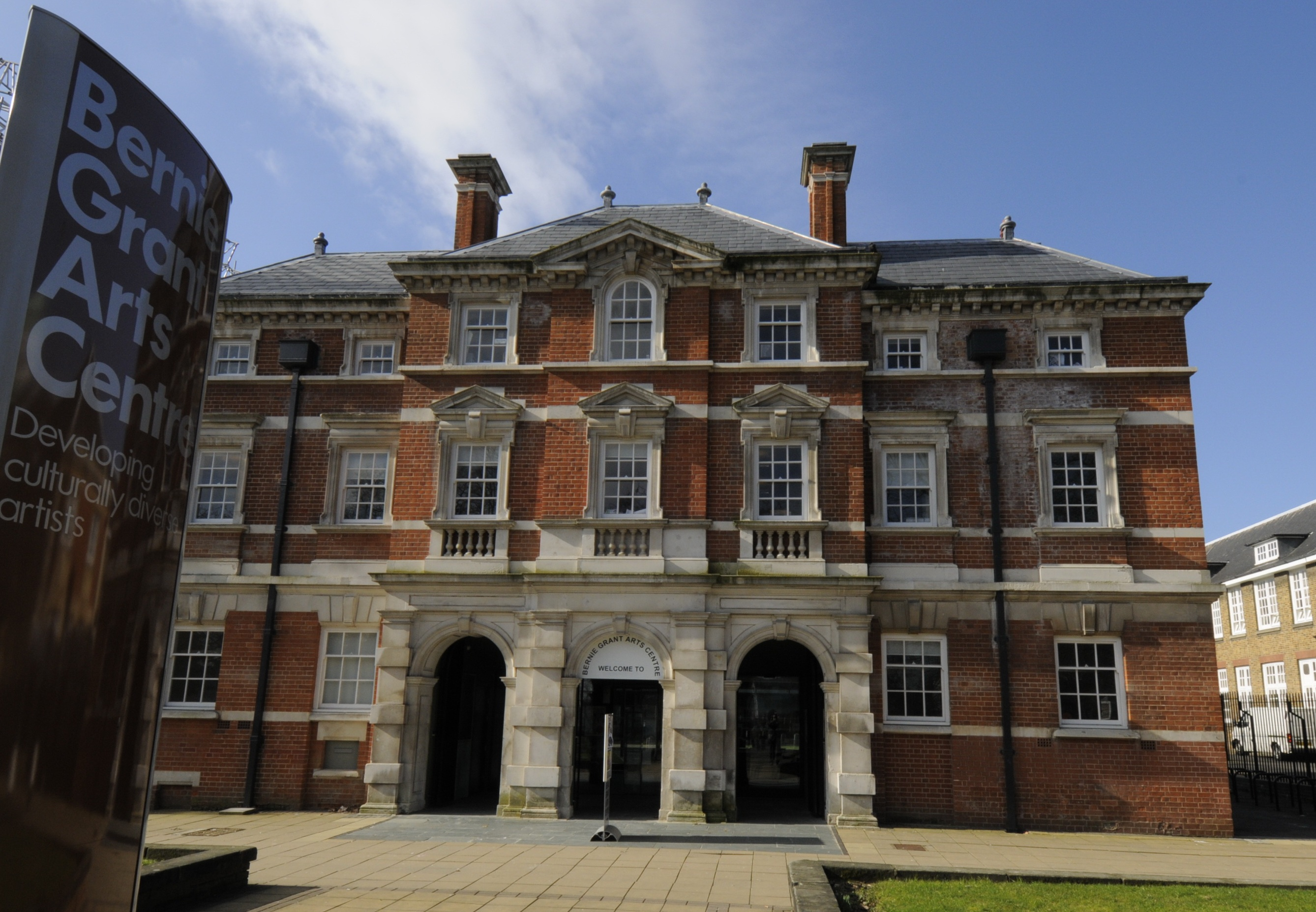 Bernie Grant Centre, London, England